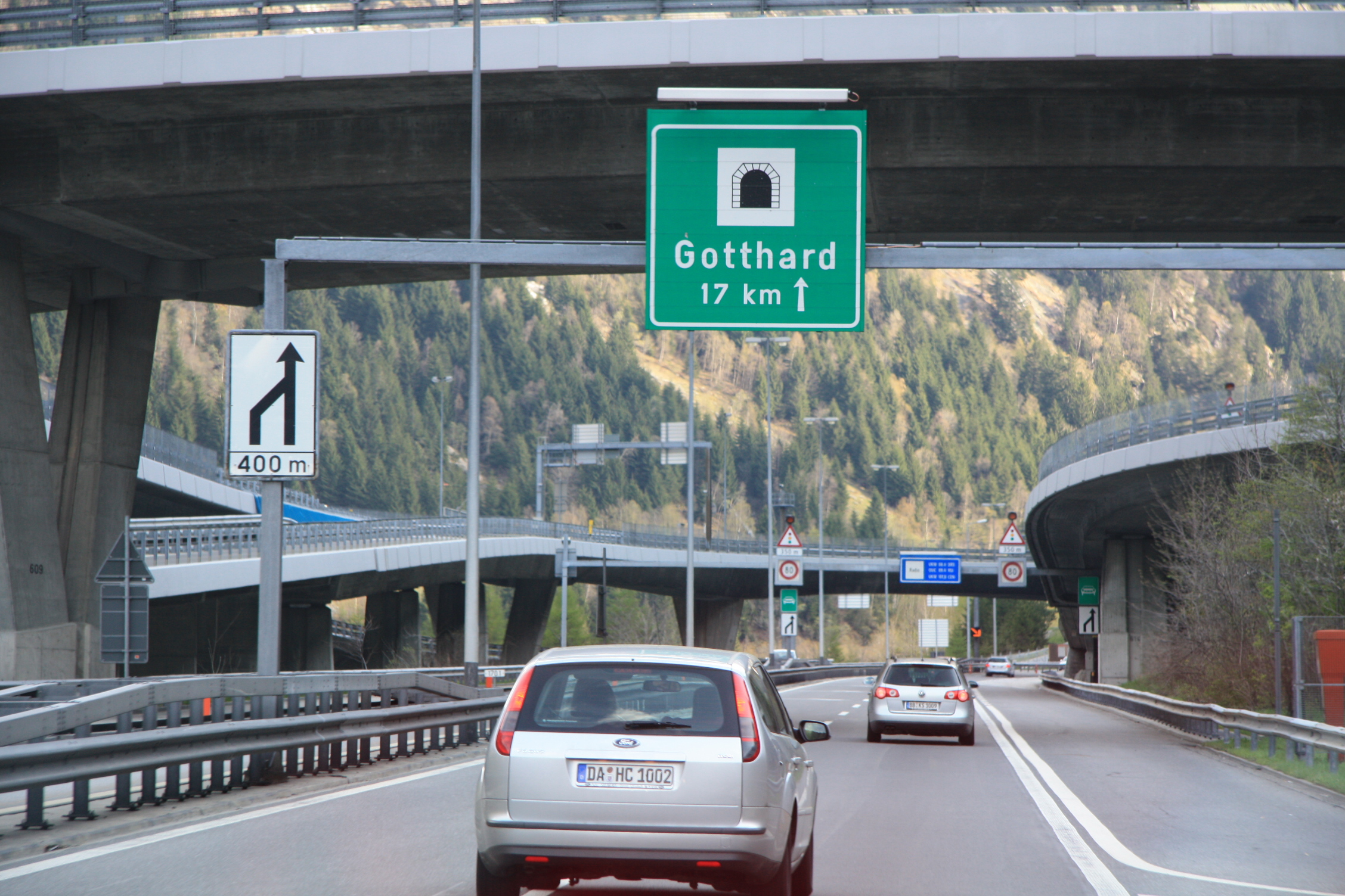 The entrance to the St. Gotthard Tunnel (Switzerland) from the nord side